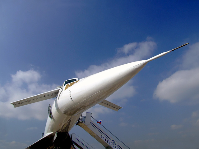 Tu-144. MAKS Airshow-2007